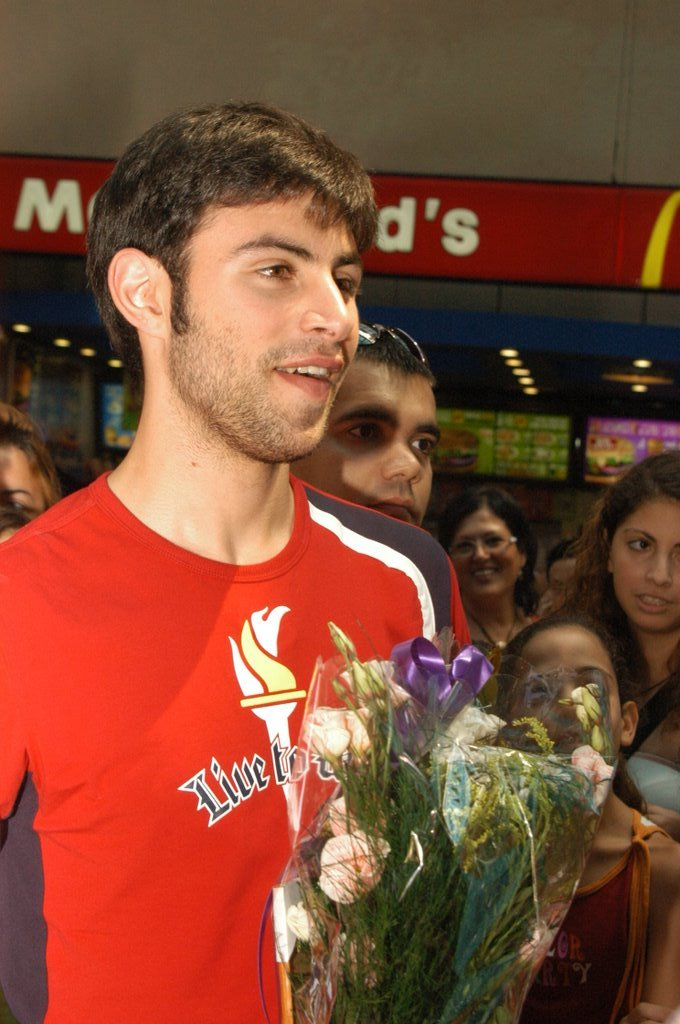 Refael Mirilo